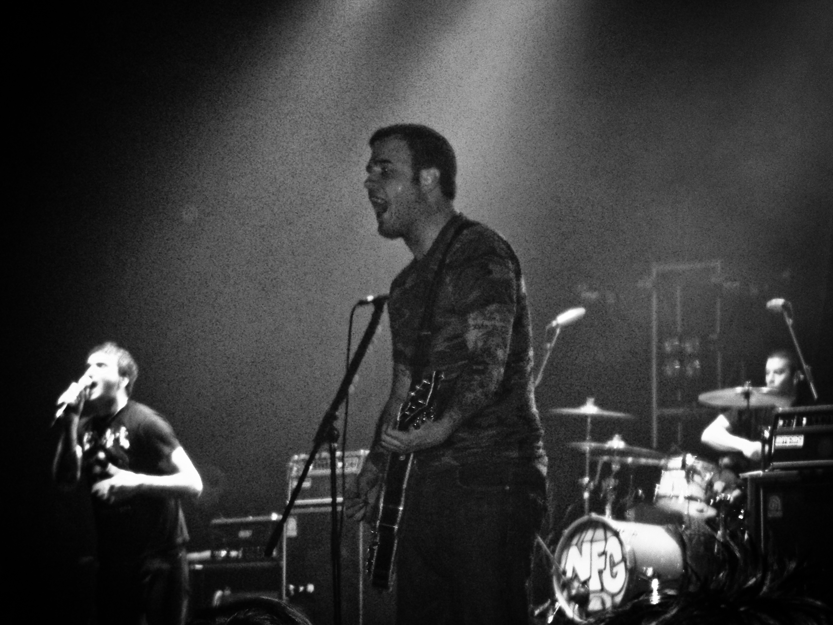 American pop punk band New Found Glory live in concert